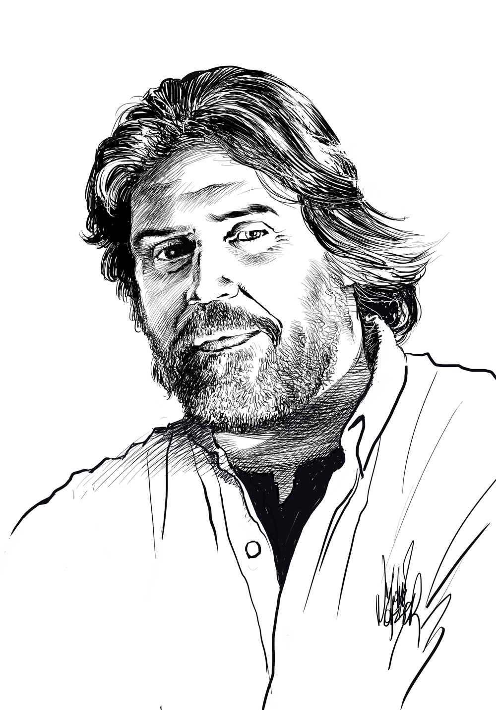 Portrait of comics artist Barreto, from Michael Netzer's Portraits of the Creators Sketchbook.